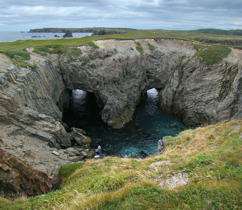 Geomorphological complex of two natural arches joining a littoral chasm formed by collapse of a former sea cave. Dungeon Provincial Park, Bonavista Peninsula, Eastern Newfoundland, Canada.